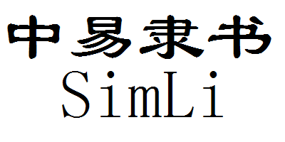 Sample of SimLi Font.